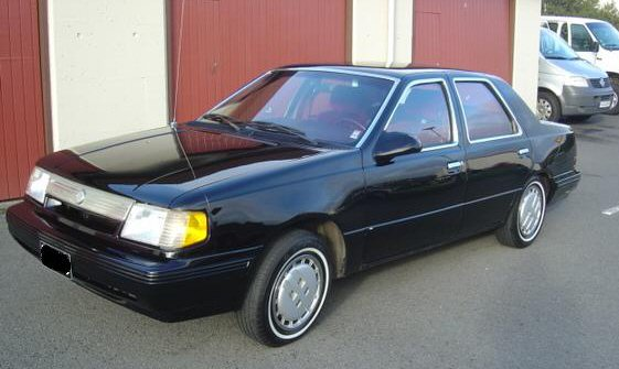 Face-lifted first generation (1986-1987) Mercury Topaz GS Sedan.